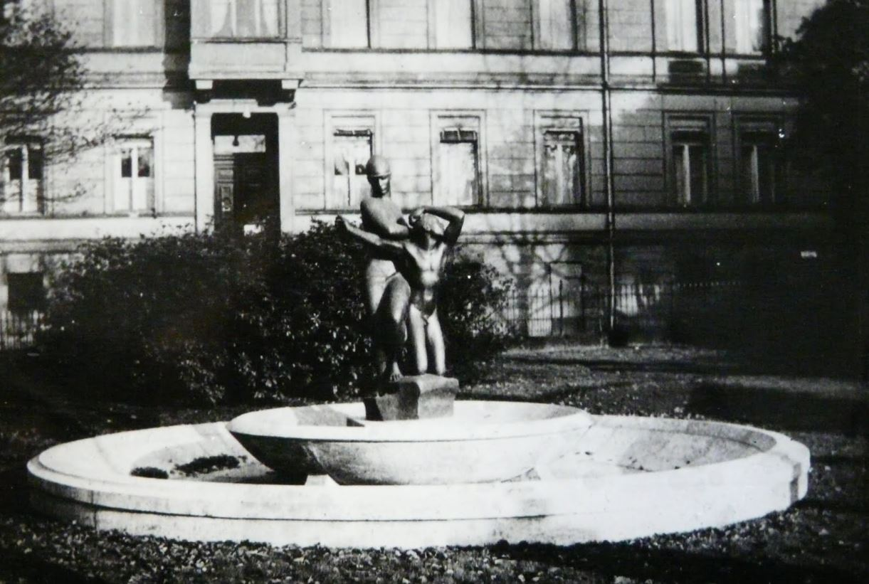 Bellona, sculpture and fountain by Georg Kolbe in Wuppertal (Germany)